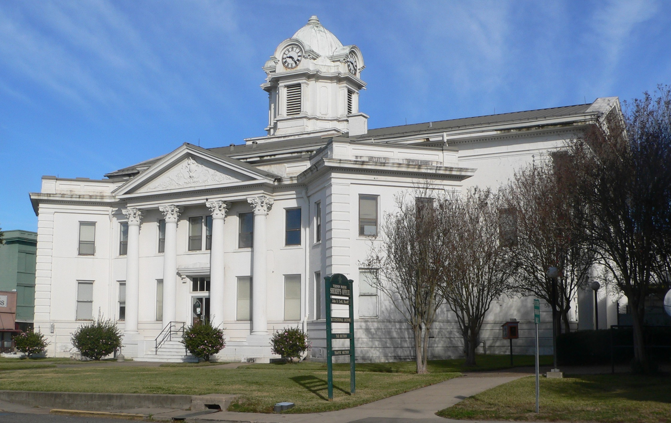 Vernon Parish courthouse in Leesville, Louisiana; seen from the southeast, looking obliquely across Lula Street.